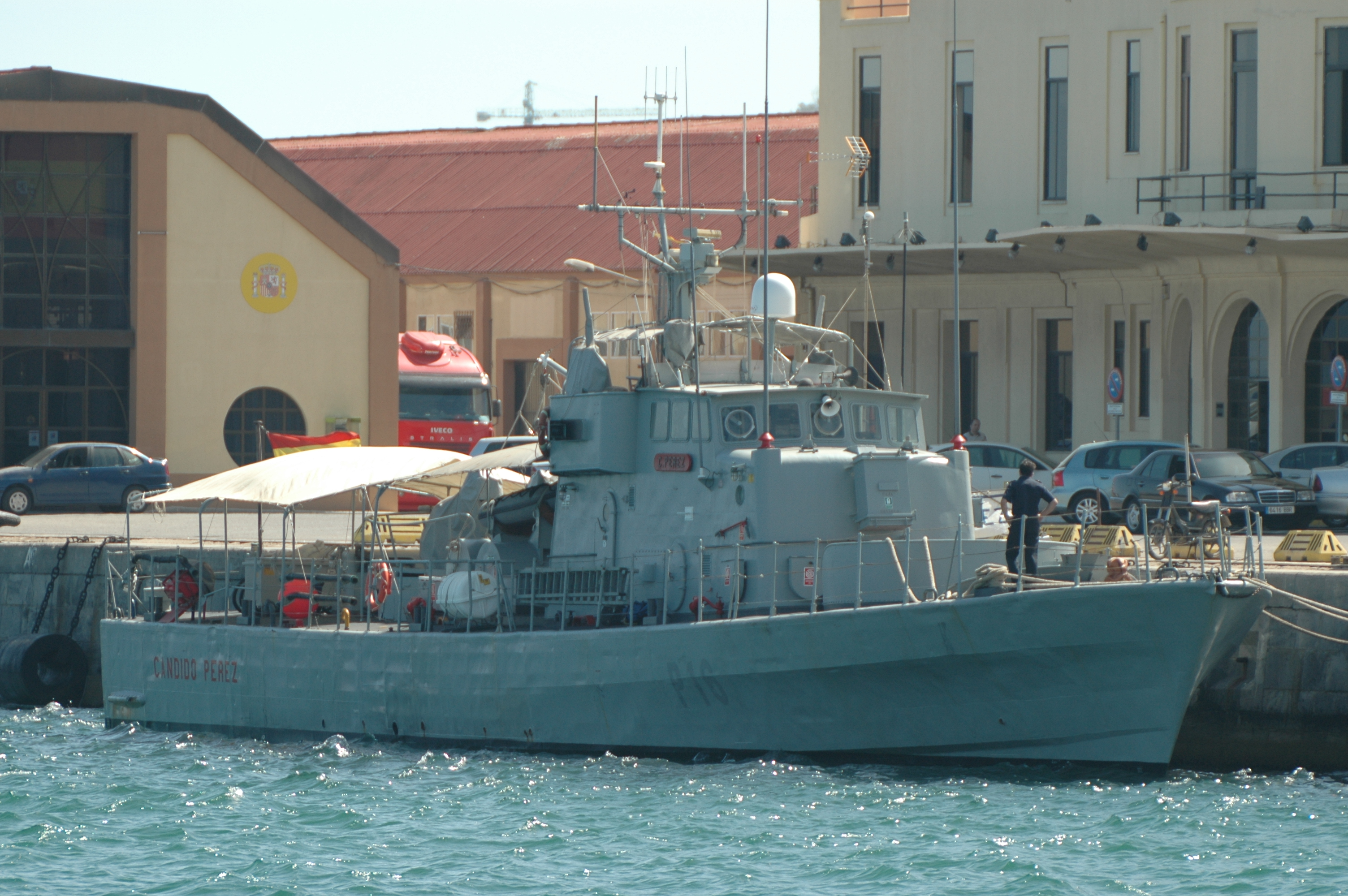 Model: P-16 Candido Perez Register Number: P-16 Place: Ceuta Comments: Barceló Class Spanish patrol ship. Date: Aug 01, 2006 Photographer: Sergio Echeverria Garcia